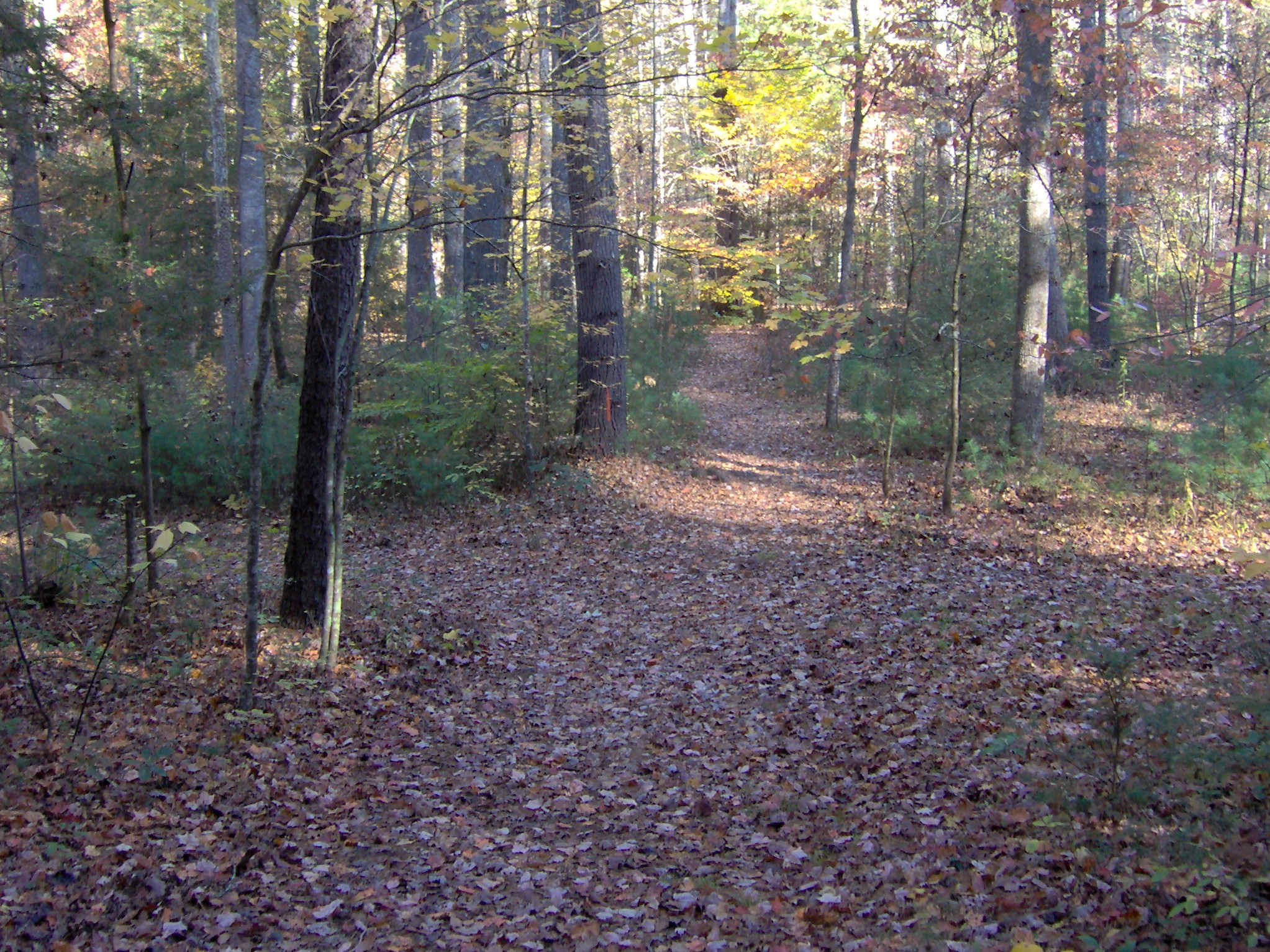 Backcountry Campsite 86 in the Great Smoky Mountains of North Carolina, located in the Southeastern United States. This campsite was once part of the town of Proctor.